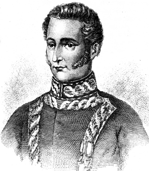 José Bernardo de Tagle, President of Peru